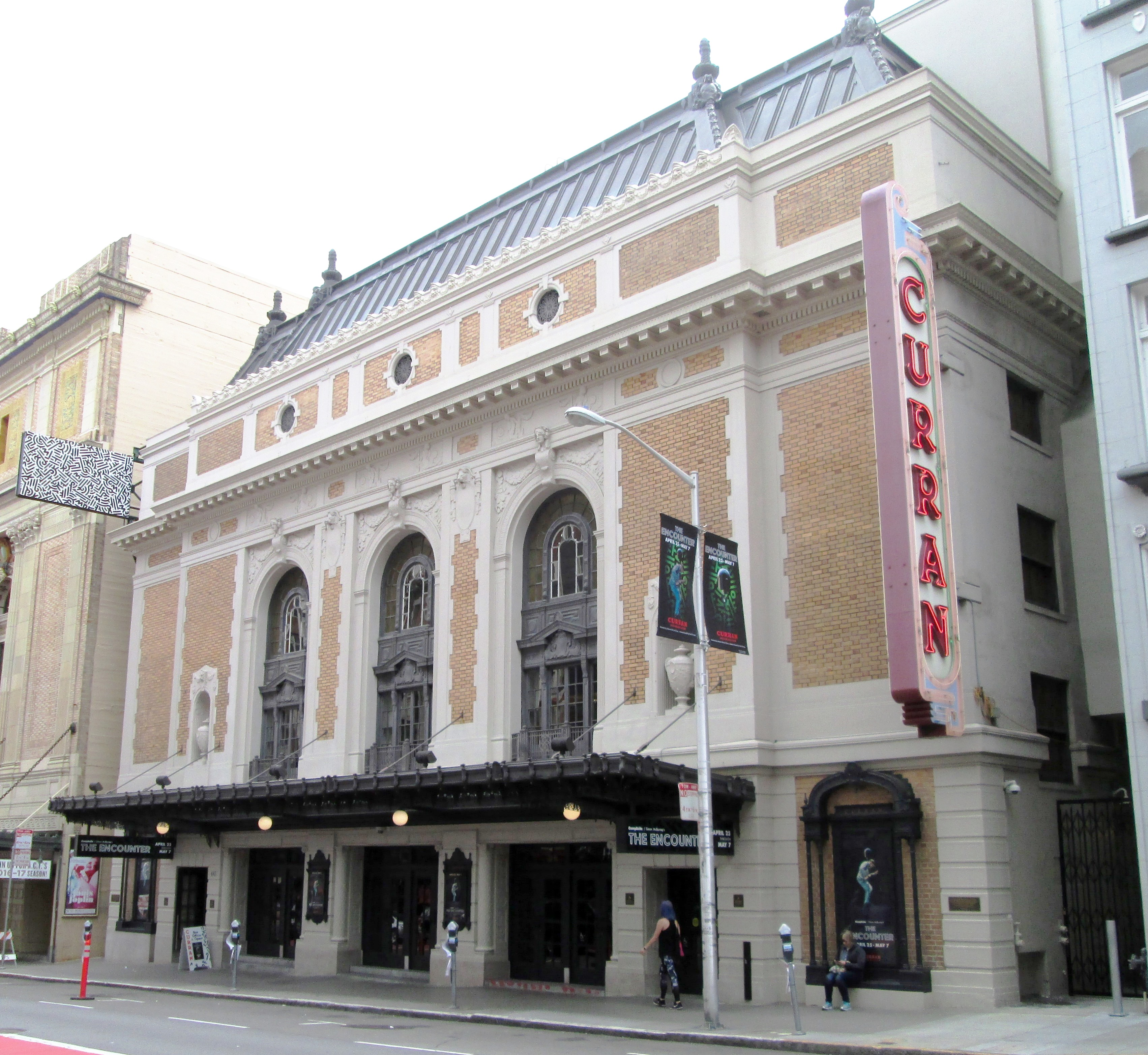 The Curran Theatre, located at 445 Geary Street between Taylor and Mason Streets in the Theatre District of San Francisco, California, was opened in February 1922, and was named after its first owner, Homer Curran. As of 2014, the theater is owned by Carole Shorenstein Hays.